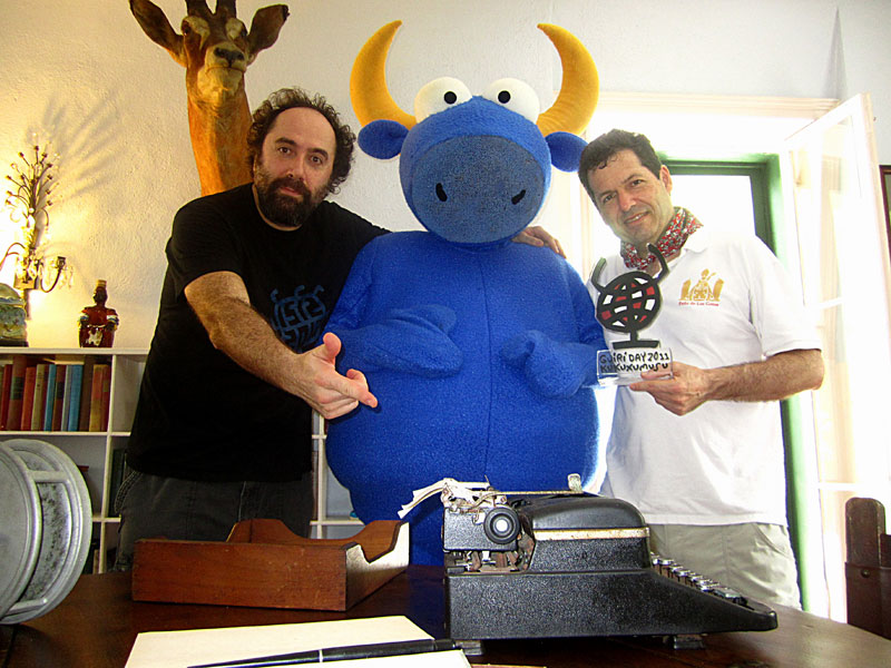 Mikel Urmeneta, Mister Testis and John Hemingway in the Hemingway Home Museum in Key West Florida